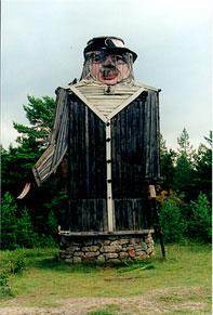 Reshaped windmill representing Toell the Great. The author gives the explicit right to publish the picture under the condition that the publisher provides the author's name and the link to his site